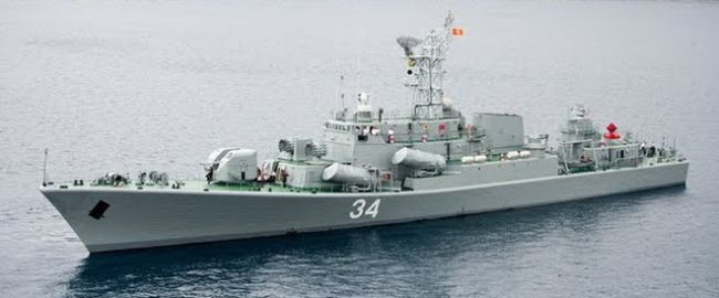 Kotor-class frigate P34